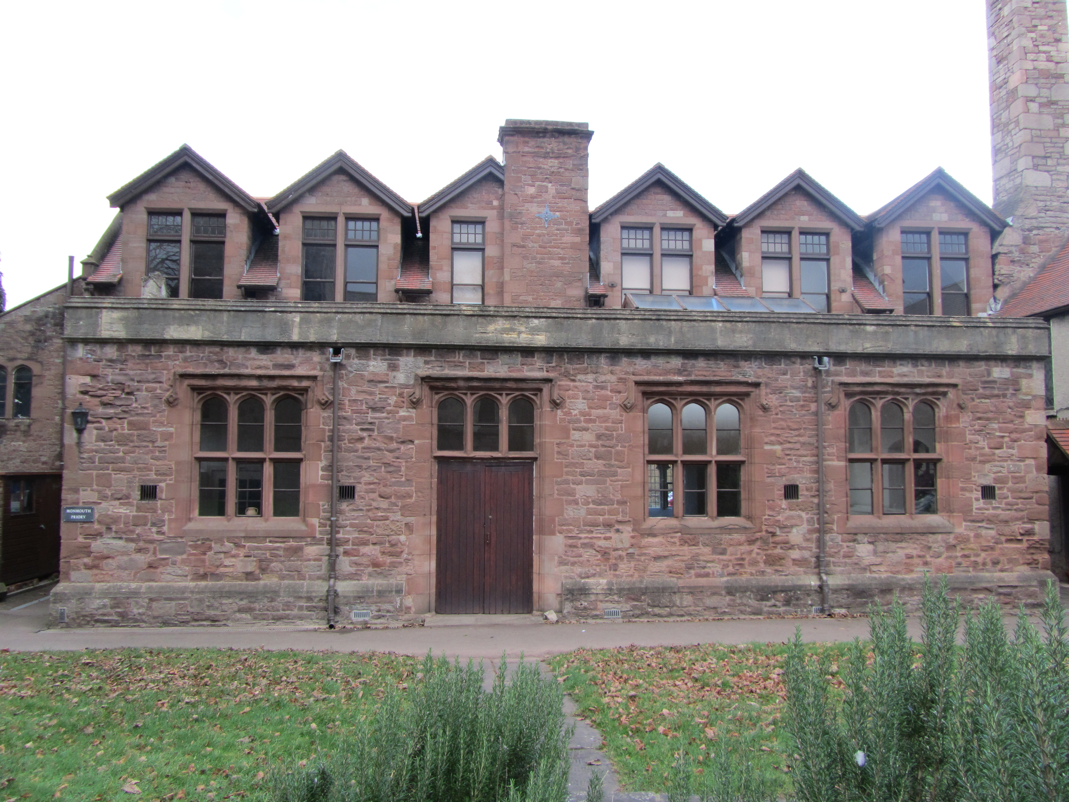 Monmouth Priory, Monmouth